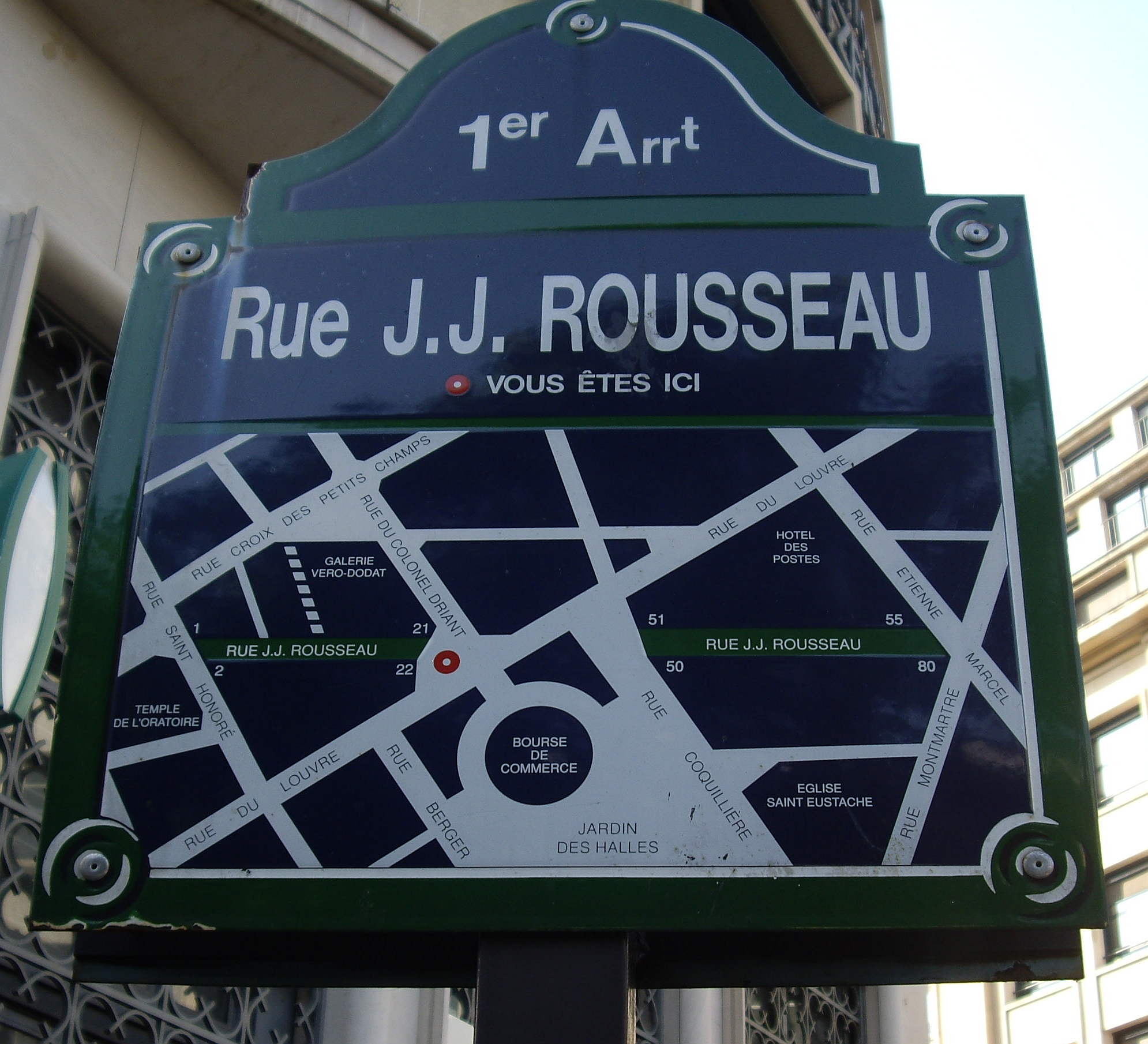 Rue Jean-Jacques-Rousseau street sign, Paris 1st.